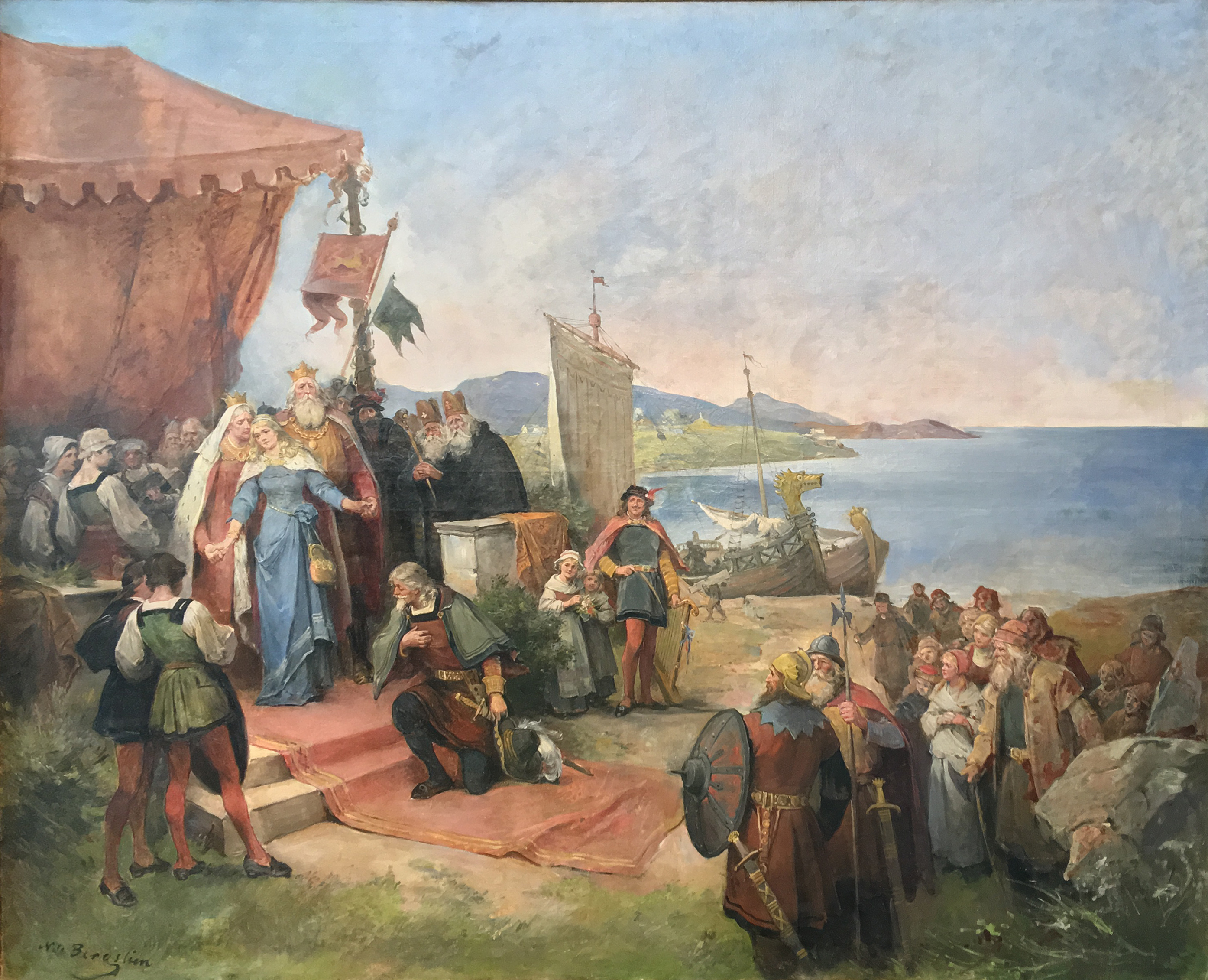 The painting "Kristina's departure to Spain (Norwegian: "Kristinas avreise til Spanien") by Nils Bergslien (1852 – 1928) depicts Christina of Norway (Norwegian: Kristina Håkonsdotter; 1234 – 1262), the daughter of Håkon IV, setting off to Spain in 1257. Oil on canvas 70.5 x 87.5 (179 x 222 cm). Displayed at Tønsberg og Færder bibliotek, the public library in Tønsberg, Norway. Cell phone photo 2018-02-12.